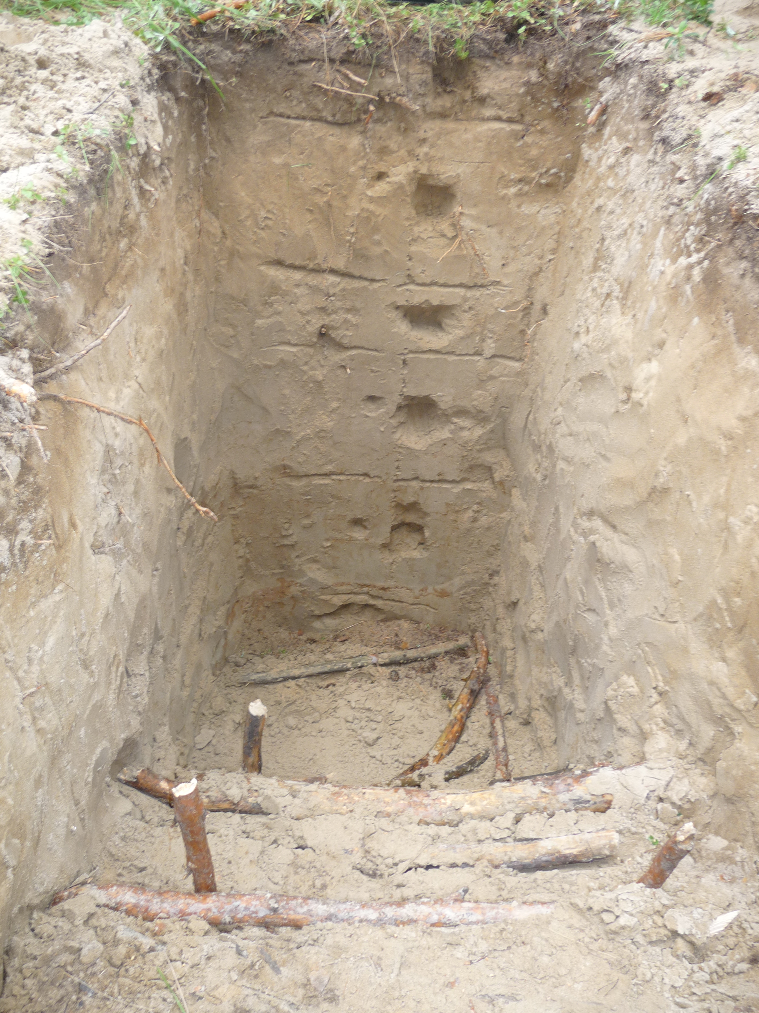 Podzol soil